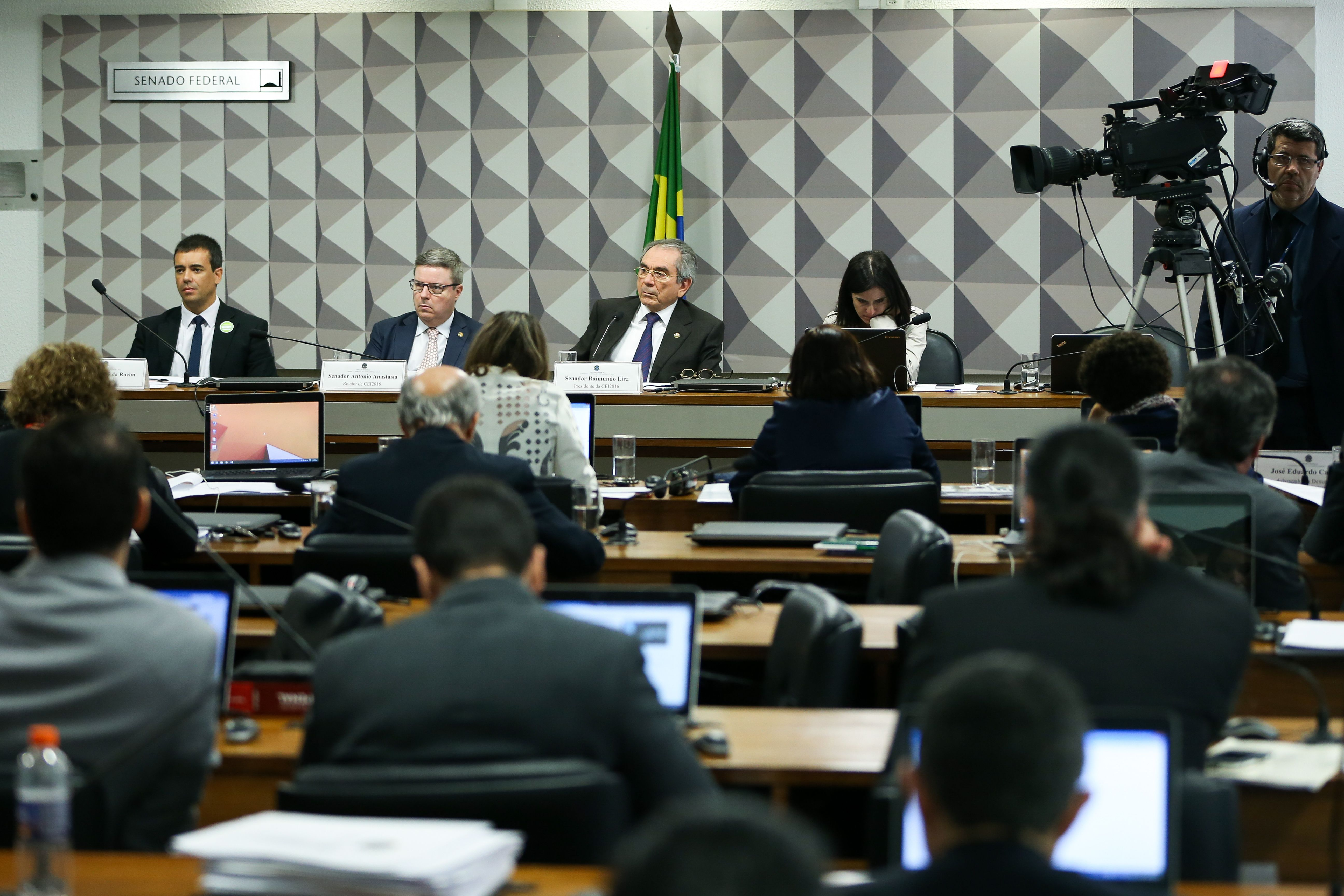 Rousseff's Impeachment Commitee meeting on 23 June 2016